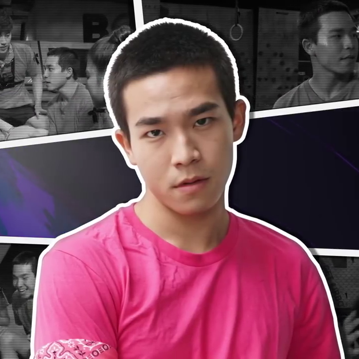 Awat Ratanapintha, screen capture from promotional video for Game of Teens